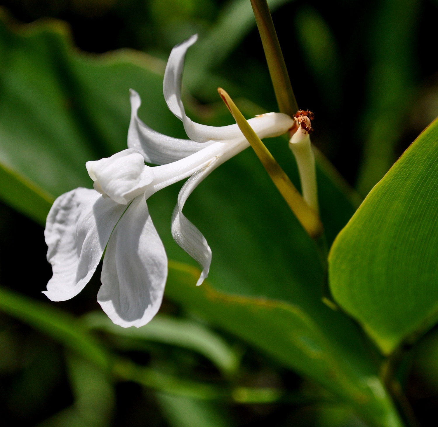 Bamban, Donax canniformis; flower close-up. From West Kalimantan, Indonesia.